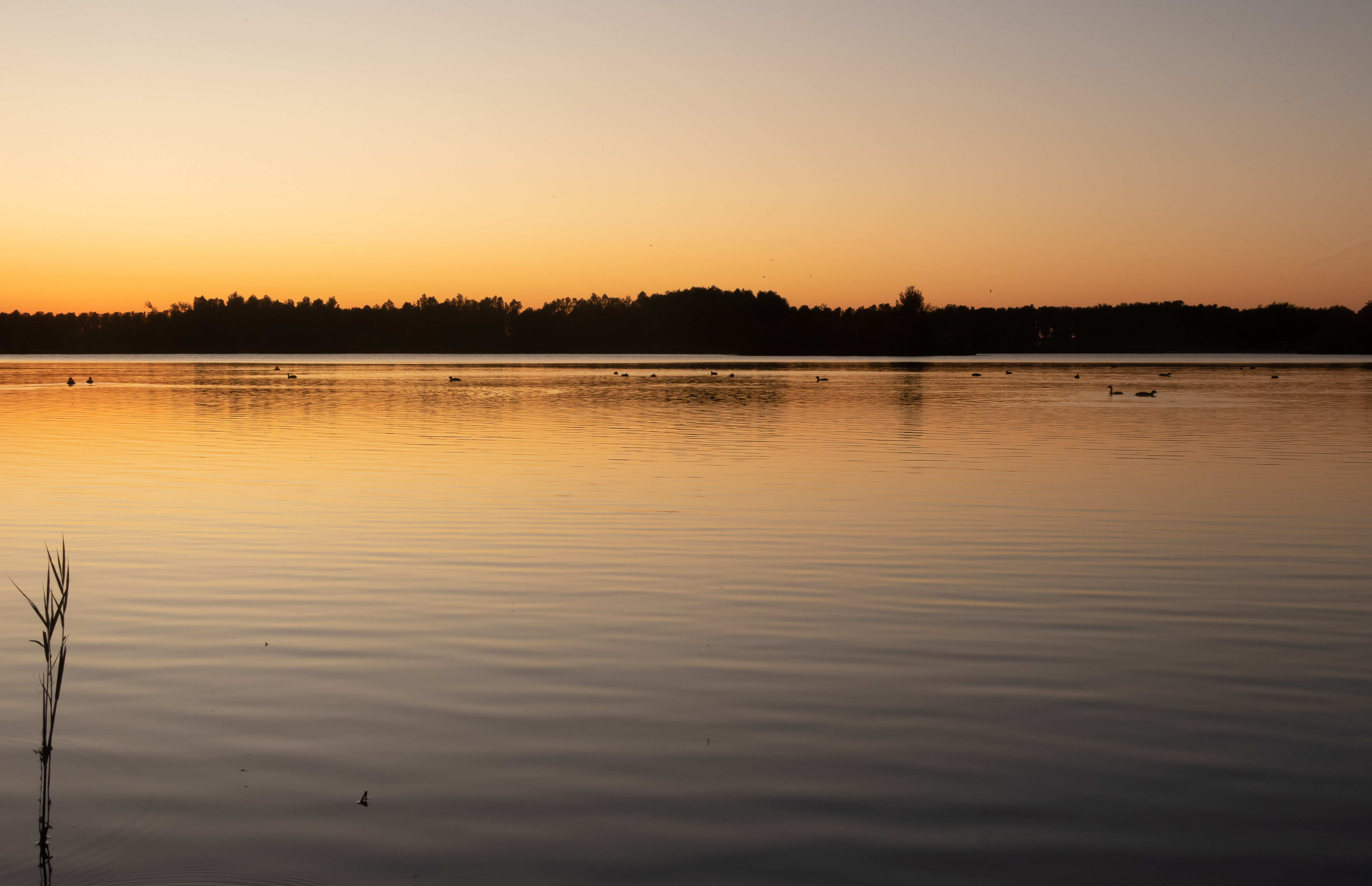 Arnhem, lake: the Rijkerswoerdse Plassen